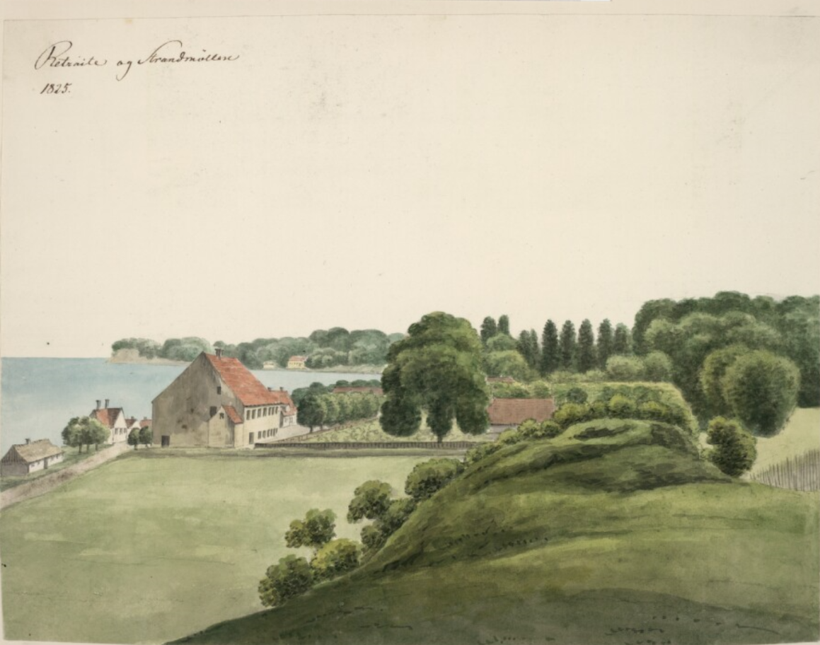 Gravinde Danners Palæ (Retraite ) and Strandmøllen at Skodsborg to the north of Copenhagen, Denmark